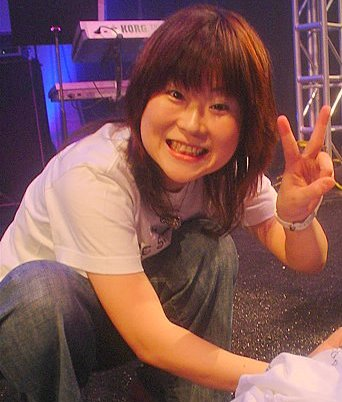 Crop of photo of Kumi Tanioka taken at the FFXI Fan Festival 2006 - Santa Mónica